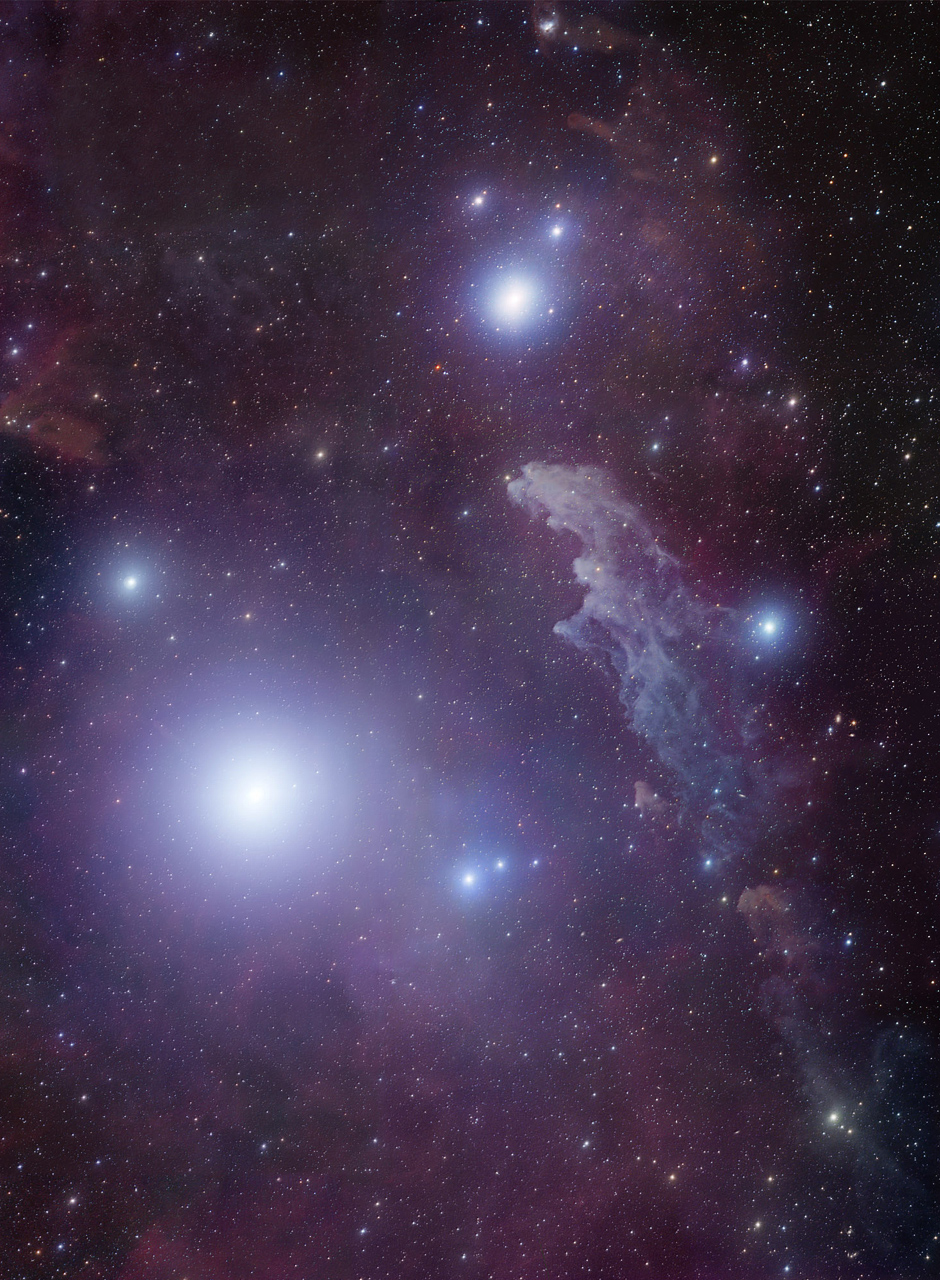 Supergiant Rigel and IC 2118 in Eridanus